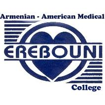 Erebouni medical college's logo